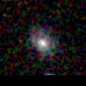 Galaxy NGC 461